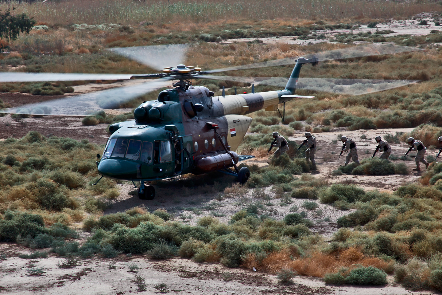 CAMP TAJI, Iraq-After securing their simulated target, Iraqi Soldiers make their way back onto an Iraqi Air Force MI-17 Hip helicopter. U.S. Soldiers from the 1st Air Cavalry Brigade, 1st Cavalry Division, trained the IA on properly entering and exiting a helicopter in a combat situation, here, Oct. 17.